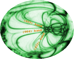 A silicon [100] bend contour spider trapped in over an elliptical hole that is about 500 nanometres wide in a silicon-on-insulator specimen, as seen with 300 keV electrons.